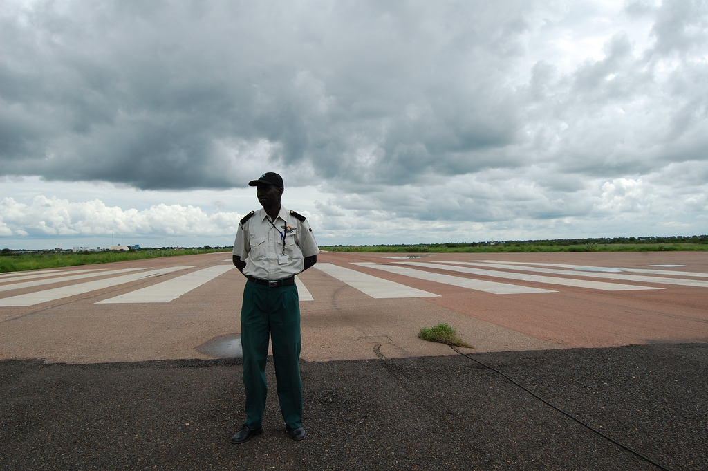 The airstrip at the JIU headquarters in Malakal, South Sudan.